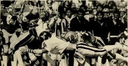 Photograph of the 1982 edition of the "Backyard Brawl" rivalry football game between the West Virginia University Mountaineers and the University of Pittsburgh Panthers.